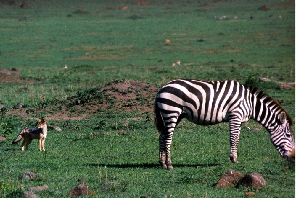 Zebra and Jackal in Ngorongoro Crater.. The image is a scan of an old film print. Photograped by Brocken Inaglory in Ngorongoro Crater, Tanzania